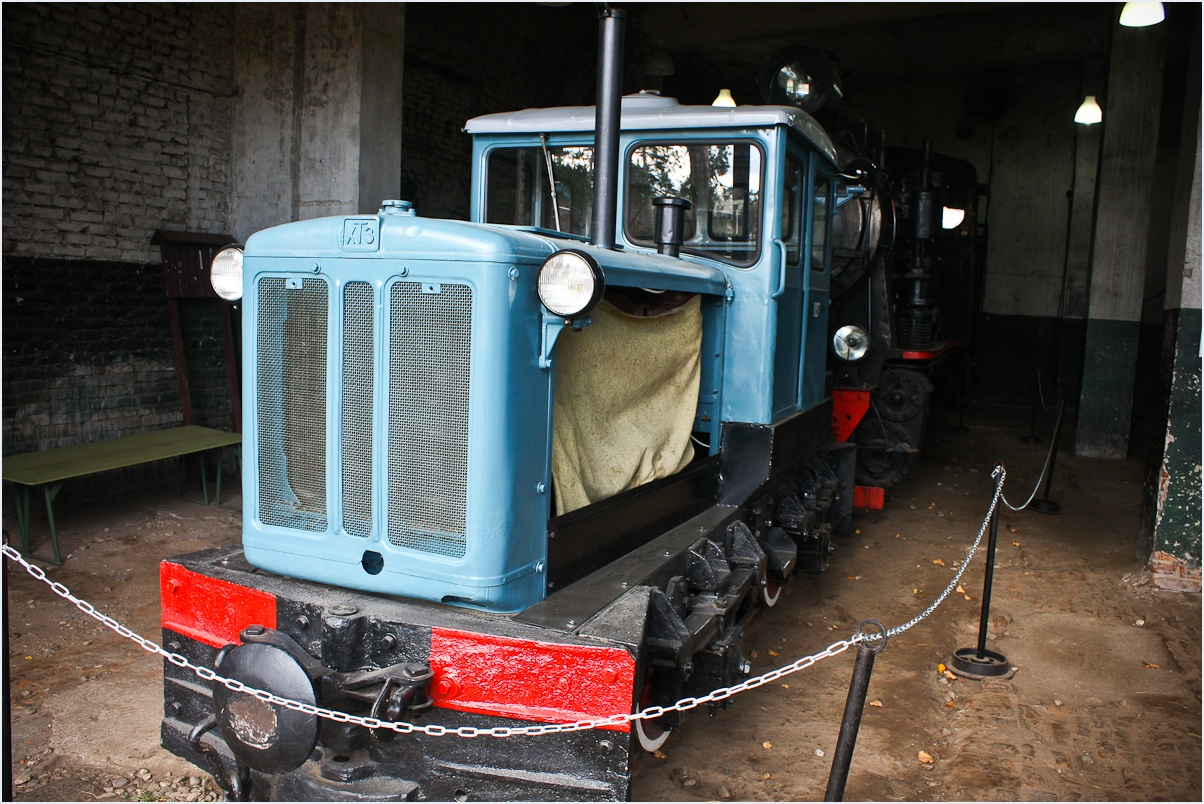 Pereslavl Railway Museum - MD54-2 (МД54-2)